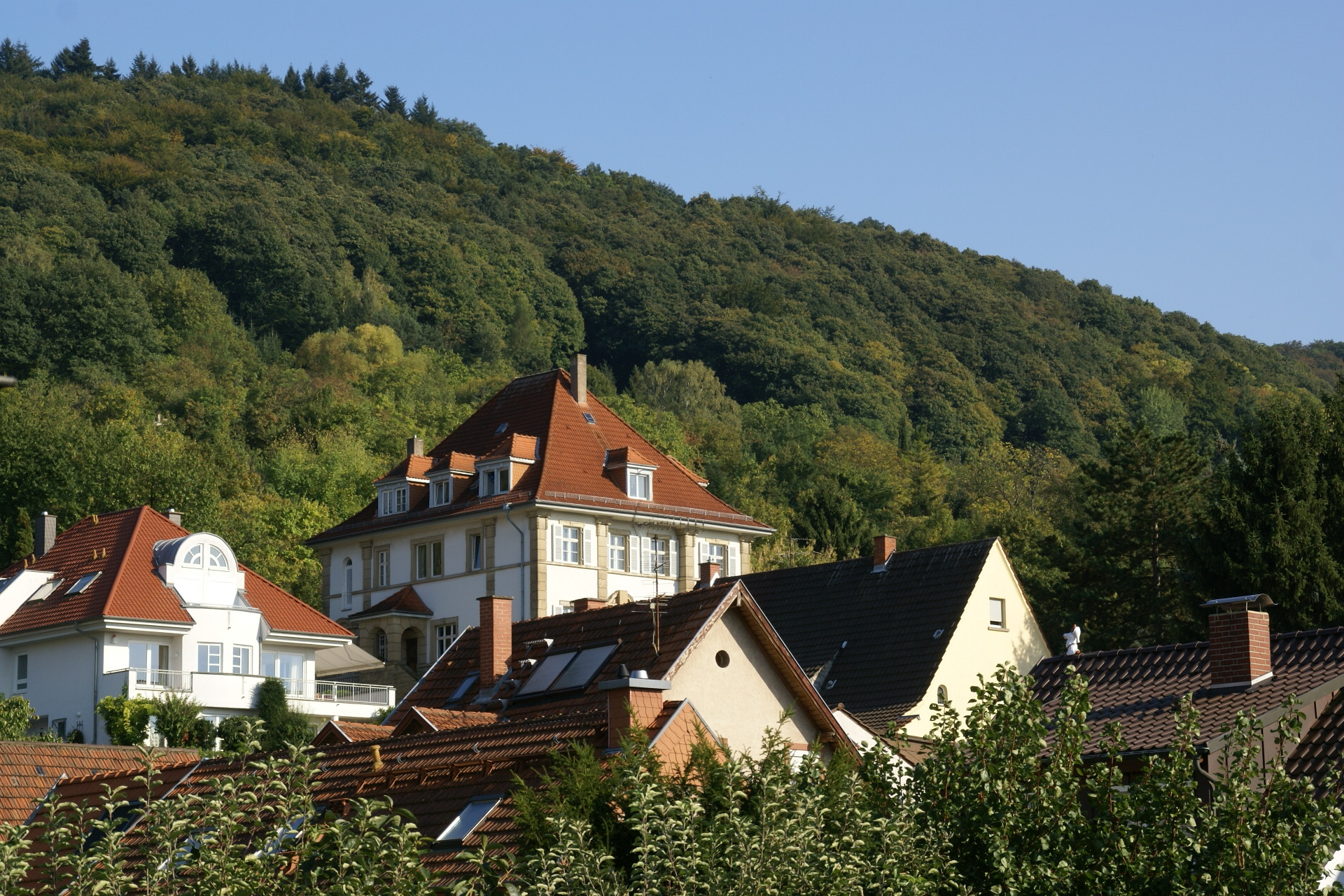 Panoramic view from Rollossweg in Heidelberg-Handschuhsheim, Germany